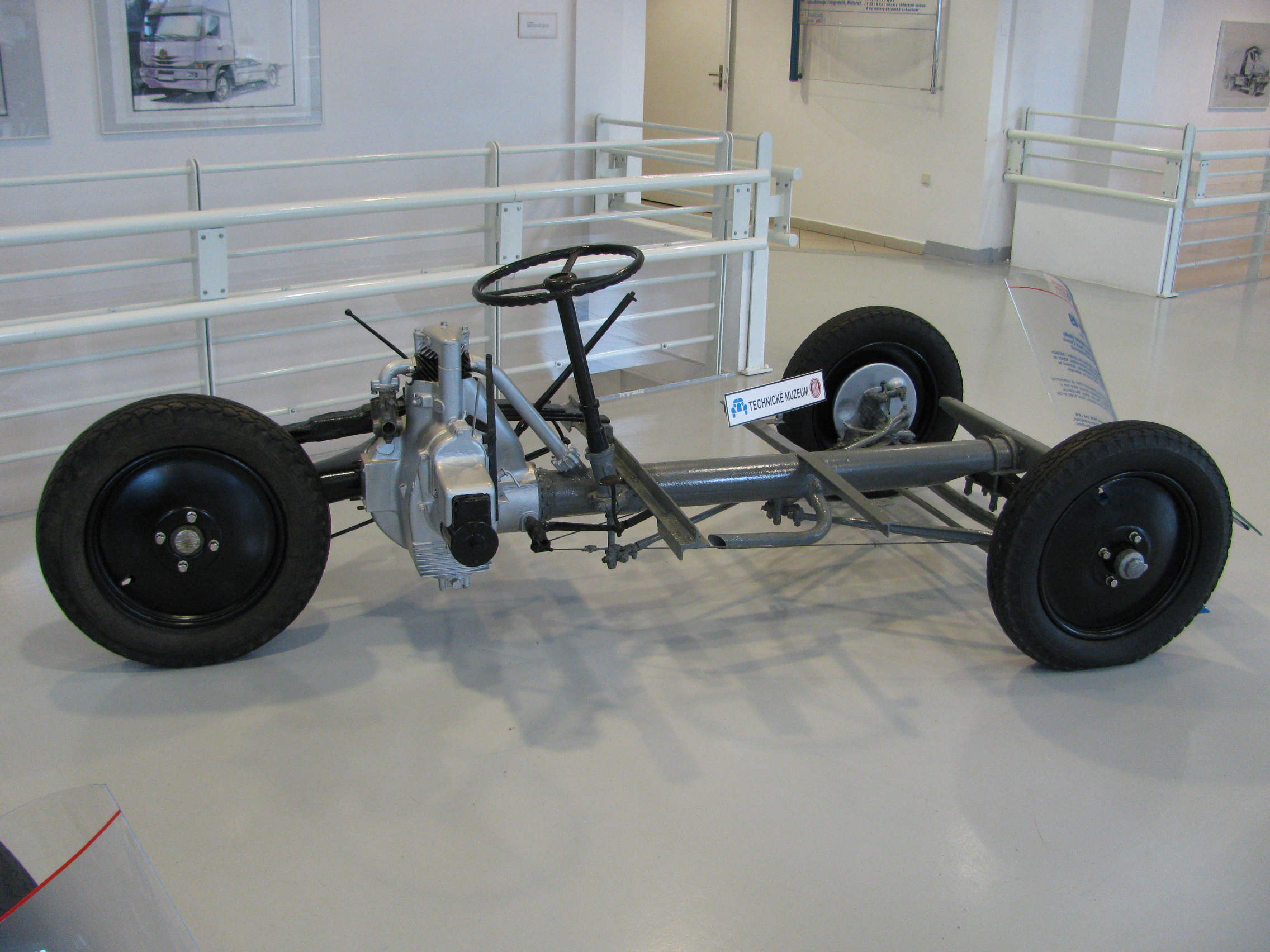 Chassis of Tatra 49 in Tatra Technical museum, Kopřivnice, Czech Republic.